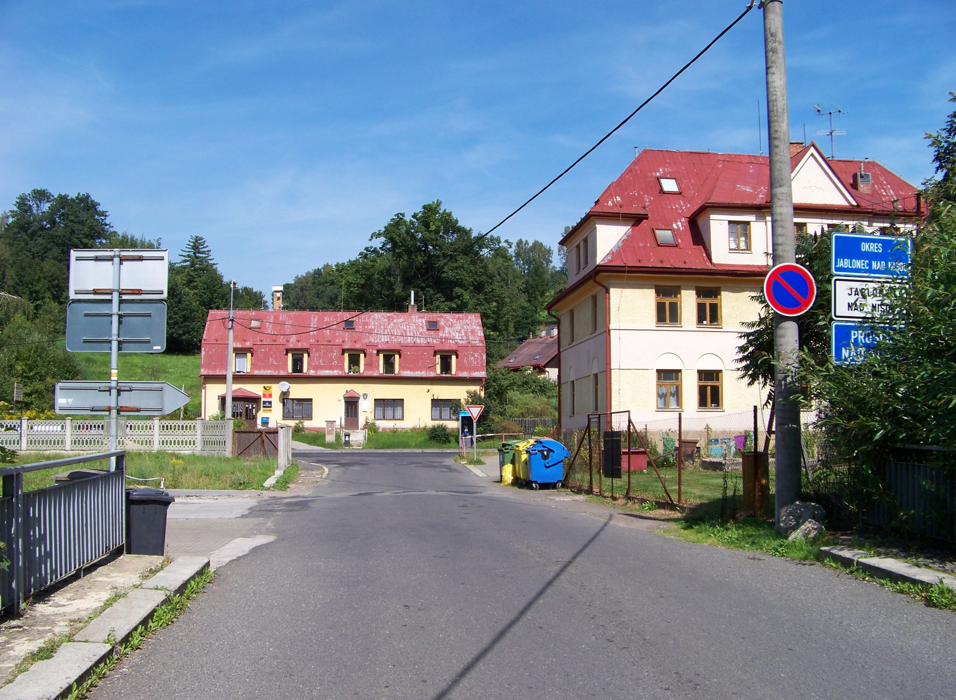 Jablonec nad Nisou-Proseč nad Nisou, Jablonec nad Nisou District, Liberec Region, the Czech Republic.